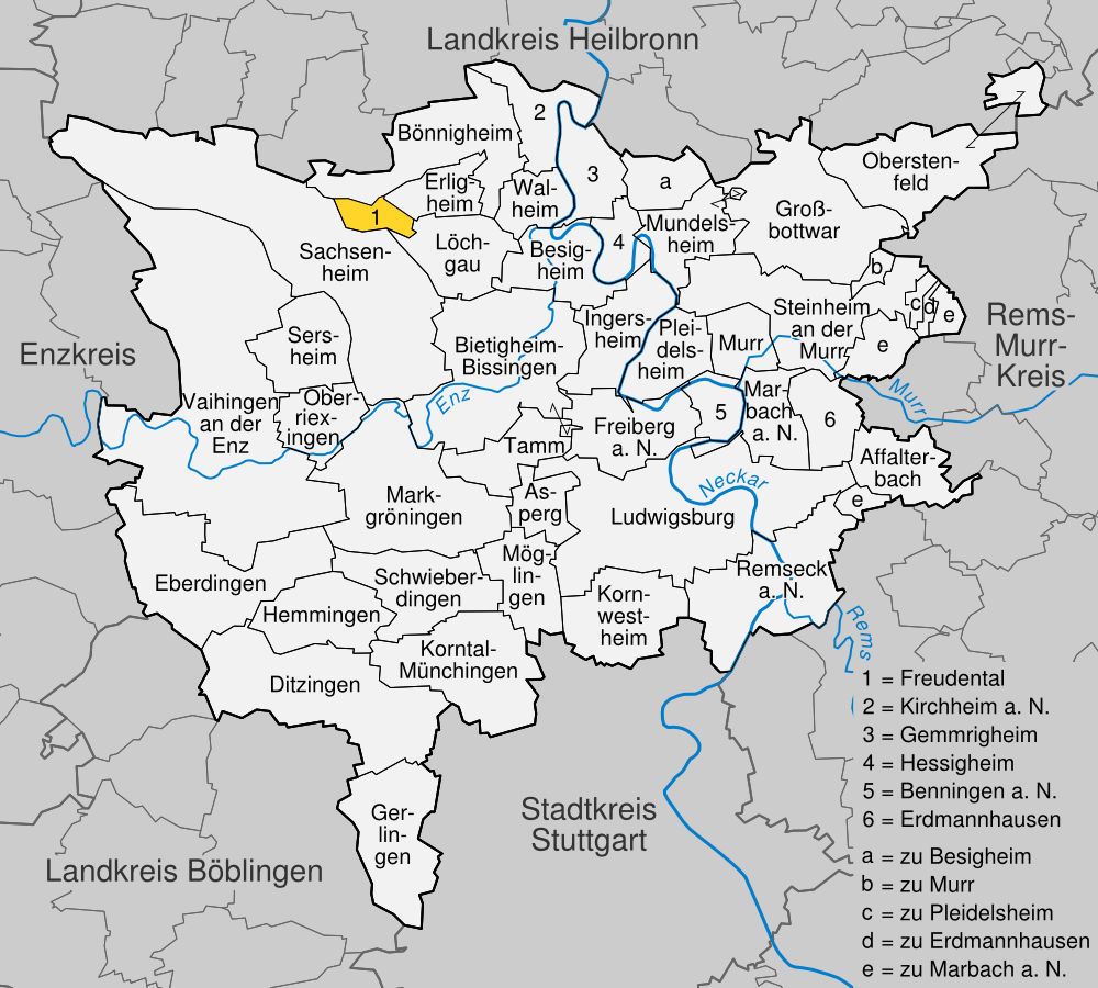 position of Freudental within distict of Ludwigsburg, Baden-Württemberg, Germany